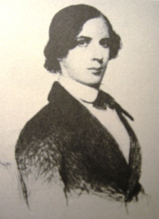 EngravingofpoetFrederickGoddardTuckermantakenfromEugeneEnglands1991criticalbiographyBeyondRomanticism